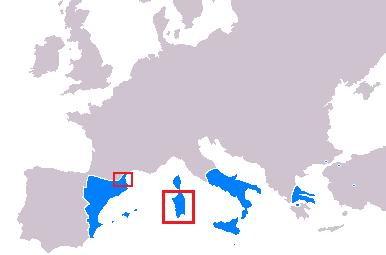 Kingdom of Aragon with the modern day wine regions of Roussillon and Sardinia highlighted to show the territories of the Tourbat grape.